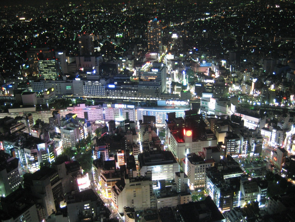 This is a view of Ikebukuro Station and Sunshine City from the Sunshine 60 observation area.